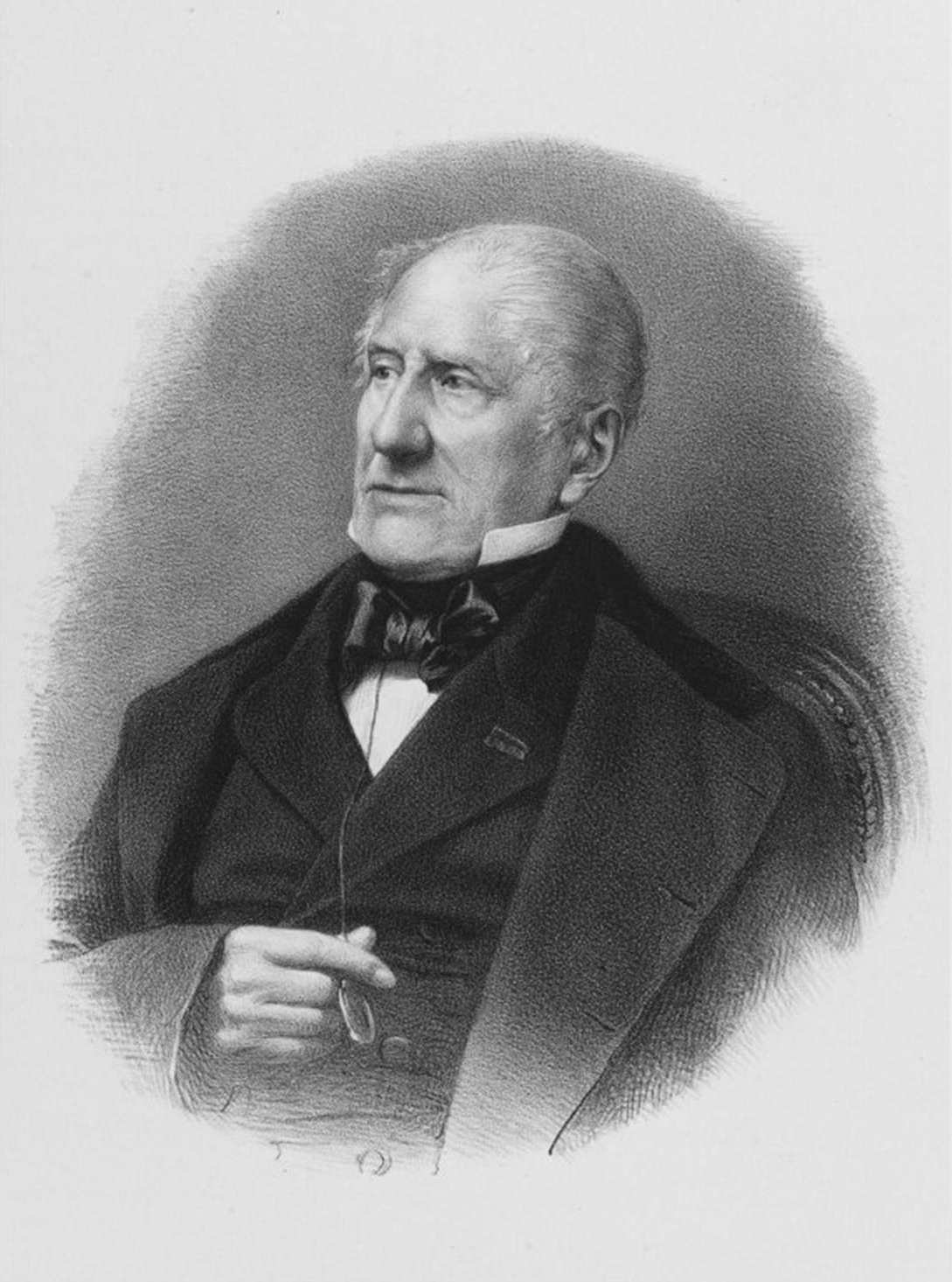 Pierre-Antoine Lebrun (1785-1873)